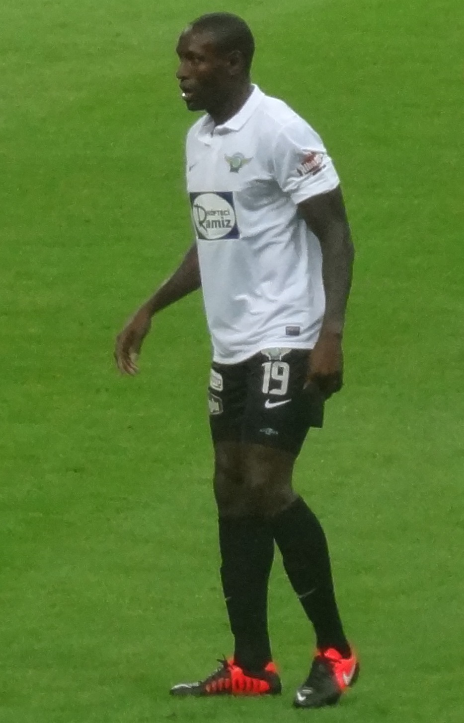 Sonko vs GS